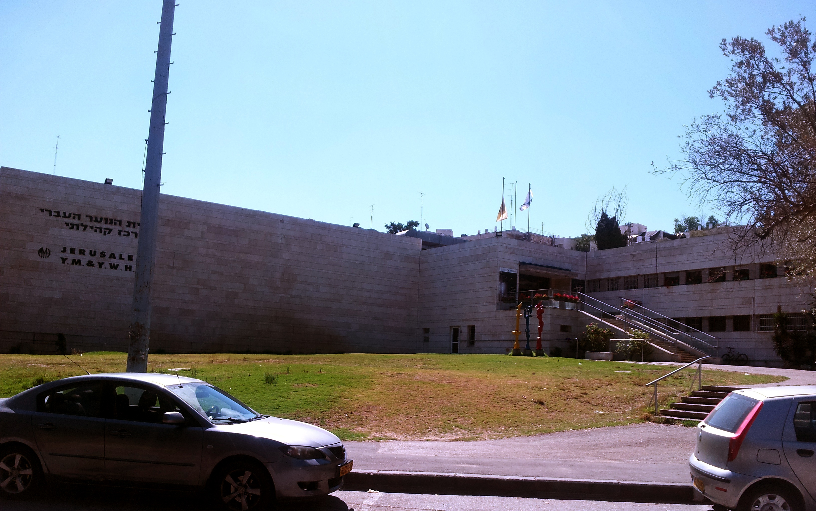 Beit Hanoar Ha'Ivri, Jerusalem